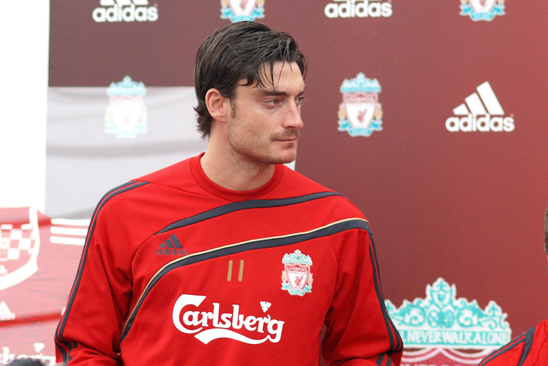 Meet the Liverpool FC players @ Vivocity